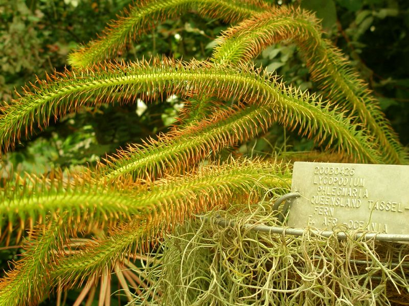 Labelled "Lycopodium phlegmaria (Queensland Tassel-Fern)", but this is not correct; see the other images in Category:Huperzia phlegmaria. The true species has leathery leaves, for instance.